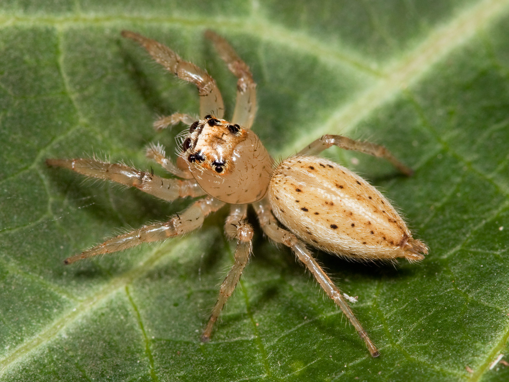 Adult female Colonus sylvanus jumping spider found at Shelby Park in Nashville, Tennessee. Body length: 10.2 mm.